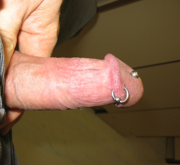 Dydoe piercing with 8mm BCR with 4mm ball